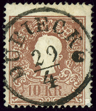 Austrian KK stamp issue II, cancelled at DUBIECKO (Galicia, Poland)